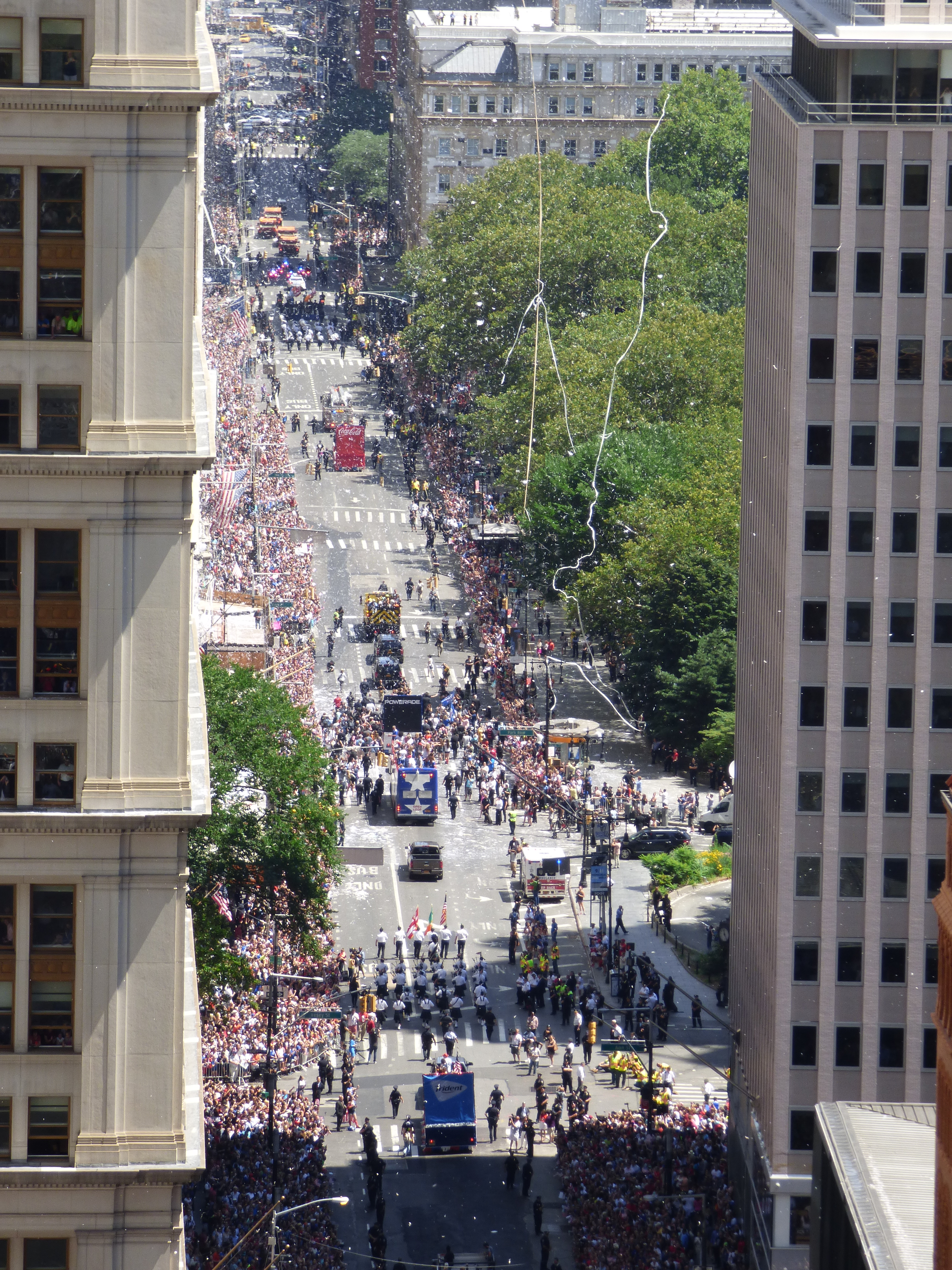 A parade in Lower Manhattan in honour of United States women's national soccer team winning the 2015 FIFA Women's World Cup